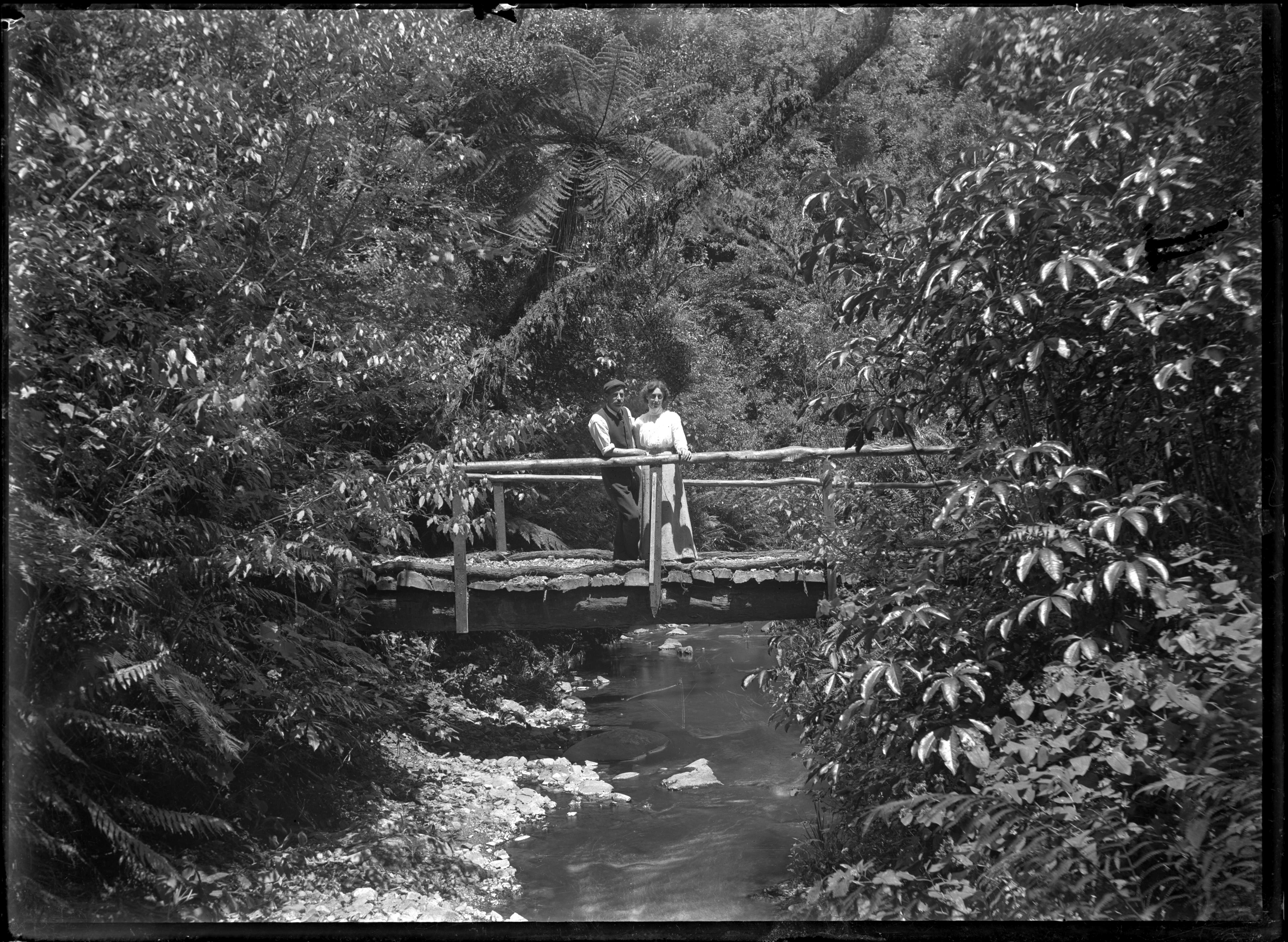 Albert Percy Godber and Laura Godber on a footbridge over the Korokoro Stream, photographed in 1910 by A P Godber.